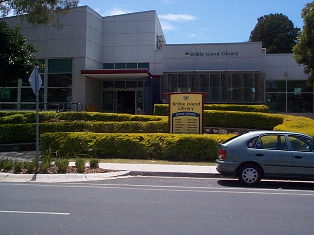 Recently rebuilt, the island's library offers comprehensive up-to-date services. Taken by MichaelGG on 7 November 2006